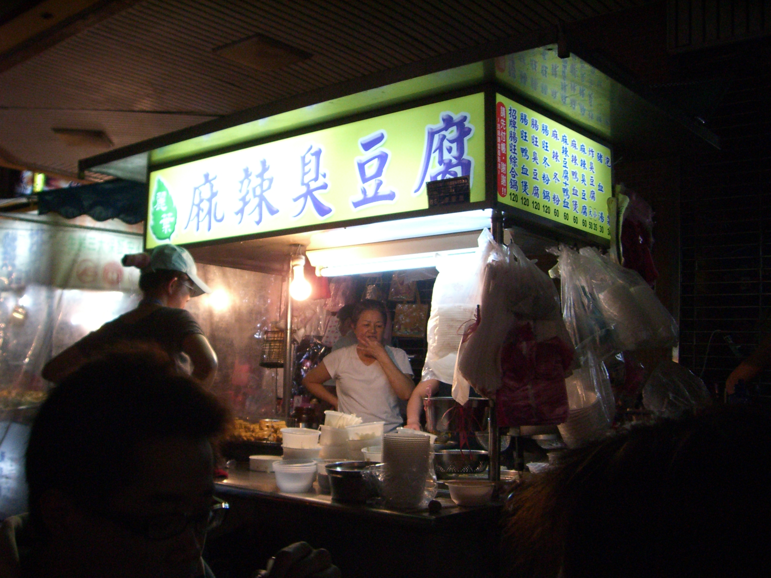 stinky tofu ship. There is written 《麻辣臭豆腐》"Mala stinky tofu" on the shop.